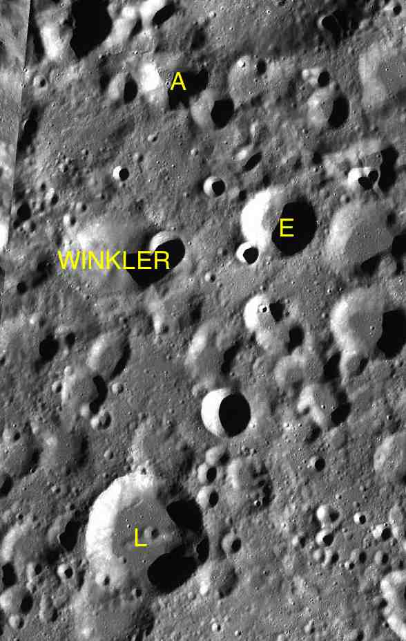 Part of the chart LAC-33 used for the presentation